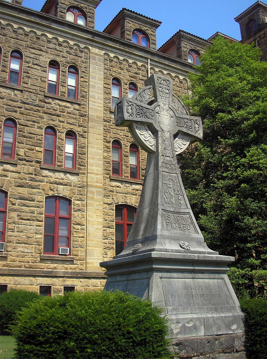 Celtic cross at St. Meinrad Archabbey in Saint Meinrad, Indiana. Photographed by me during a July, 2006 visit to the archabbey.